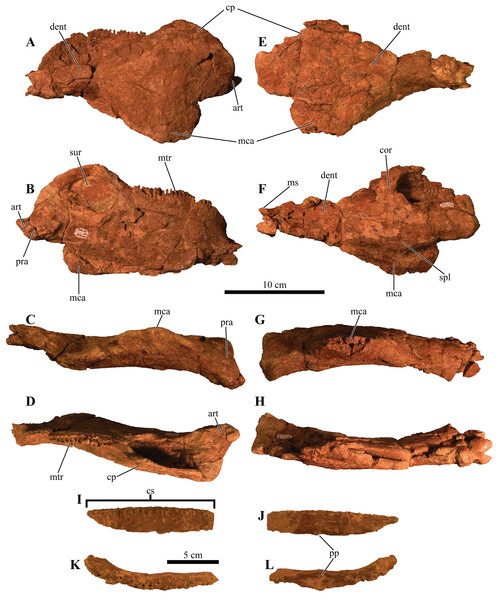 Photographs of the mandibles and predentary of Akainacephalus johnsoni (UMNH VP 20202). Left mandible in (A), lateral; (B), medial; (C), ventral; and (D), dorsal views. Right mandible in (E), lateral; (F), medial; (G), ventral; and (H), dorsal view. Predentary in (I), anterior; (J), posterior; (K), dorsal; and (L), ventral views. Study sites: cp, coronoid process; cs, predentary cutting surface; mos, mandibular osteoderm; ms, mandibular symphysis; mtr, mandibular tooth row; pp, predentary protuberance.